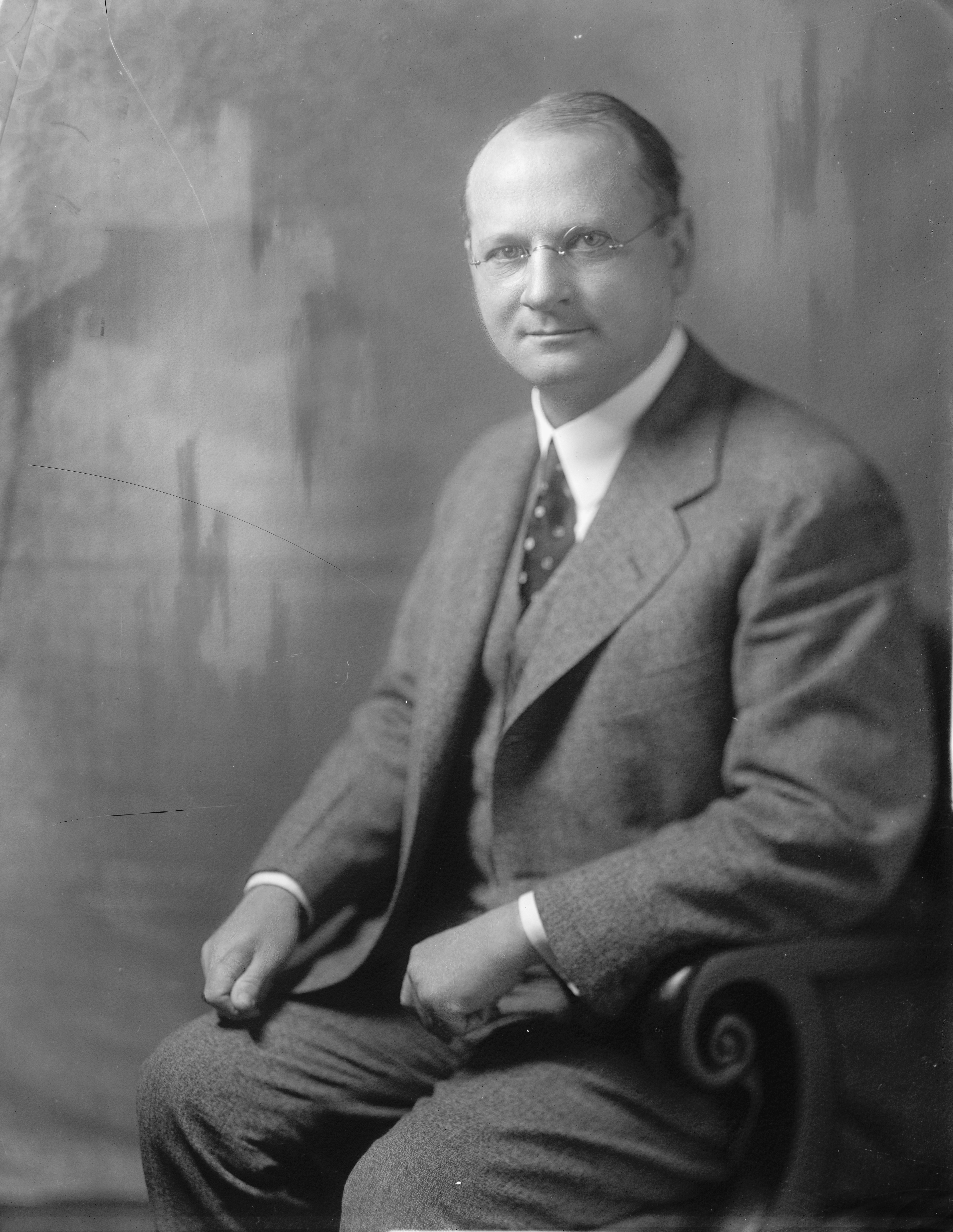 Senator Edwin S. Broussard of Louisiana. Photoportrait, seated.